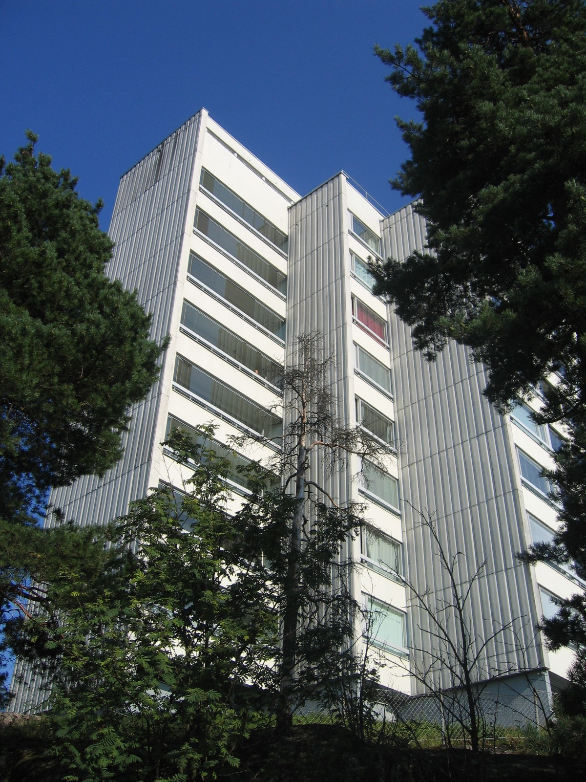 Pihlajamäki suburb in Helsinki, Finland.